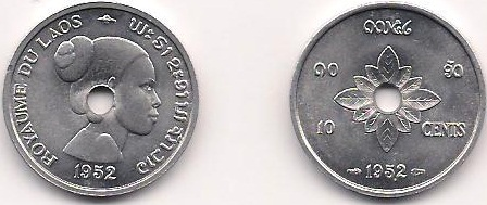 A Lao 10 cent coin from 1952.